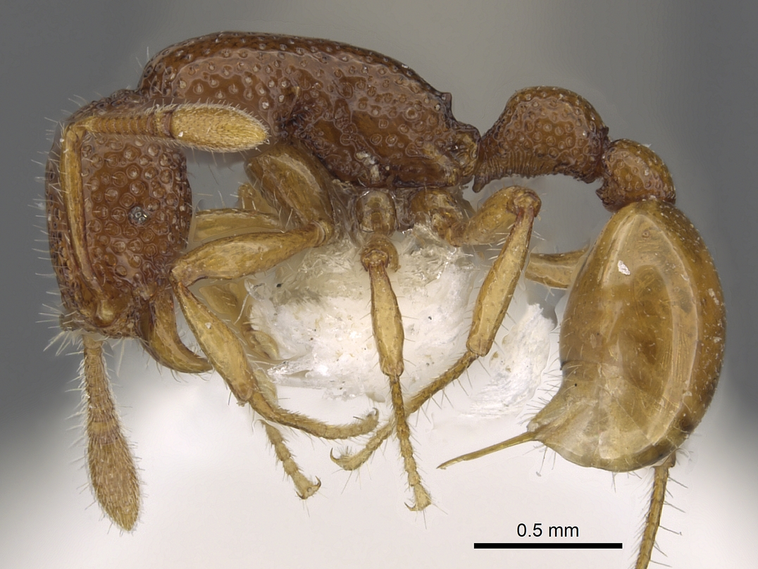 Left profile view of the Tyrannomyrmex rex holotype worker. Collected on 01 Oct 1994 in Pasoh Forest Reserve, Peninsular Malaysia Natural History Museum, London, England BMNH specimen BMNH(E)1014421 Antcat specimen ANTC20225